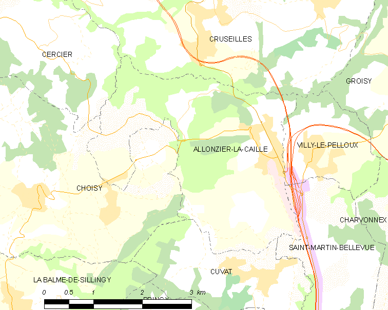 Map of French municipality Allonzier-la-Caille